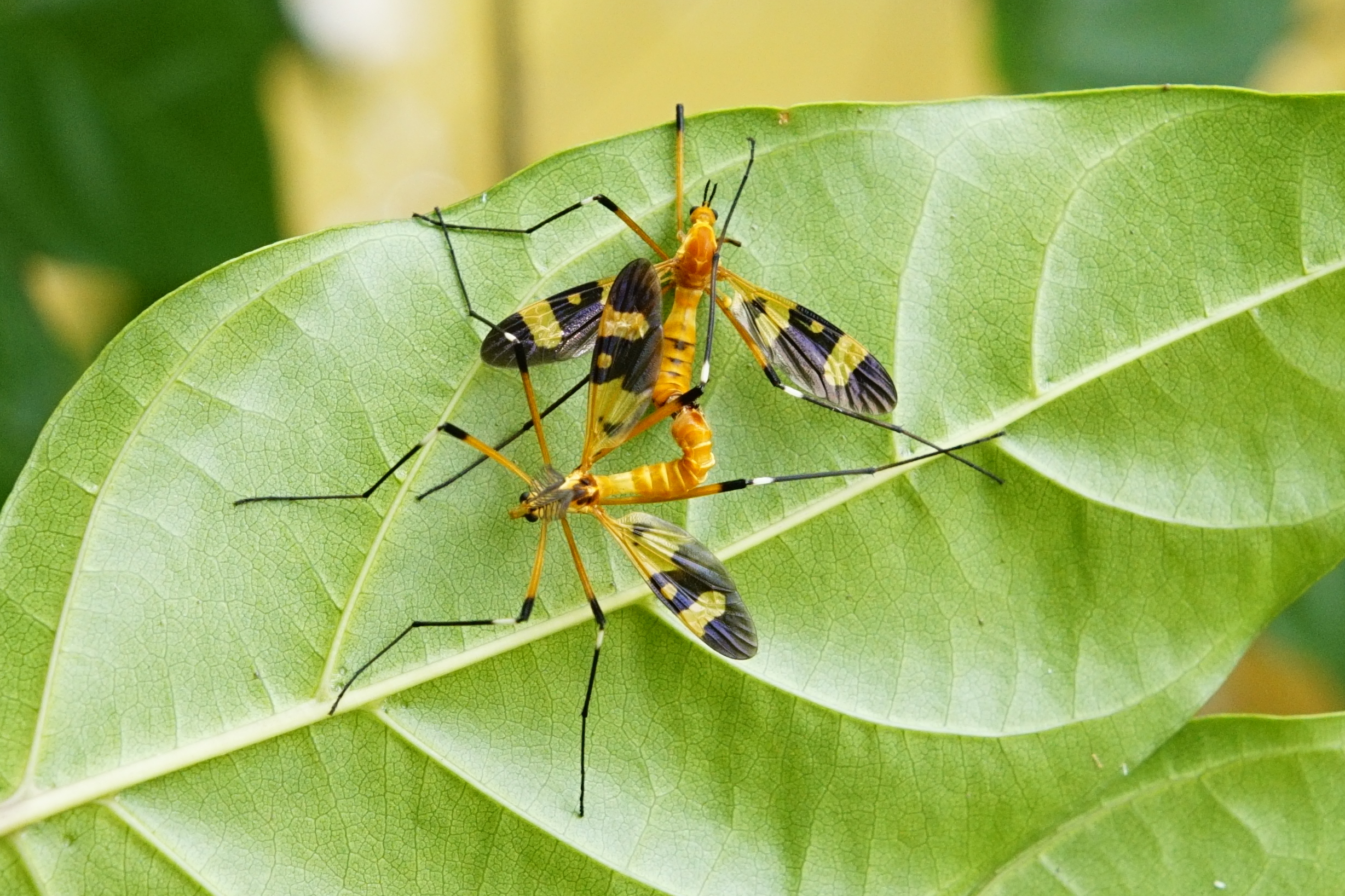 Pselliophora laeta @chemanchery